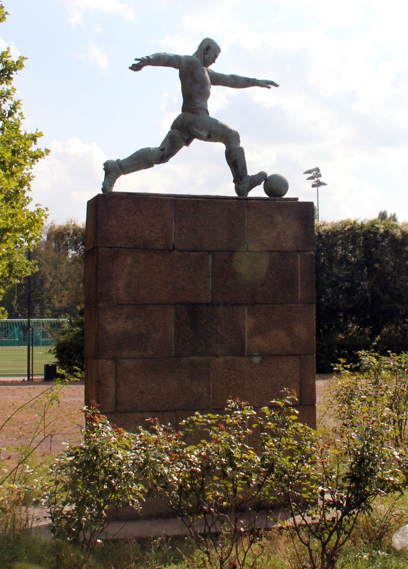 Sculpture, "Fußballspieler" by Mario Moschi, 1936, Cantianstraße 24, Berlin-Prenzlauer Berg, Germany